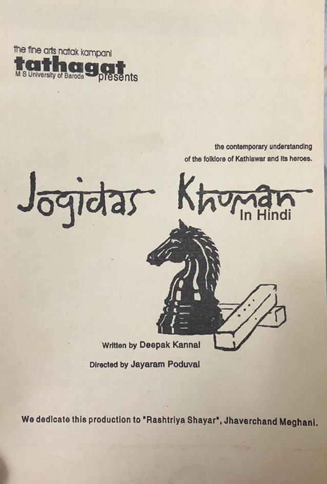 Play 'Jogodas Khanum' performed by Tathagat, Fine Art Natak Kampani, Baroda.